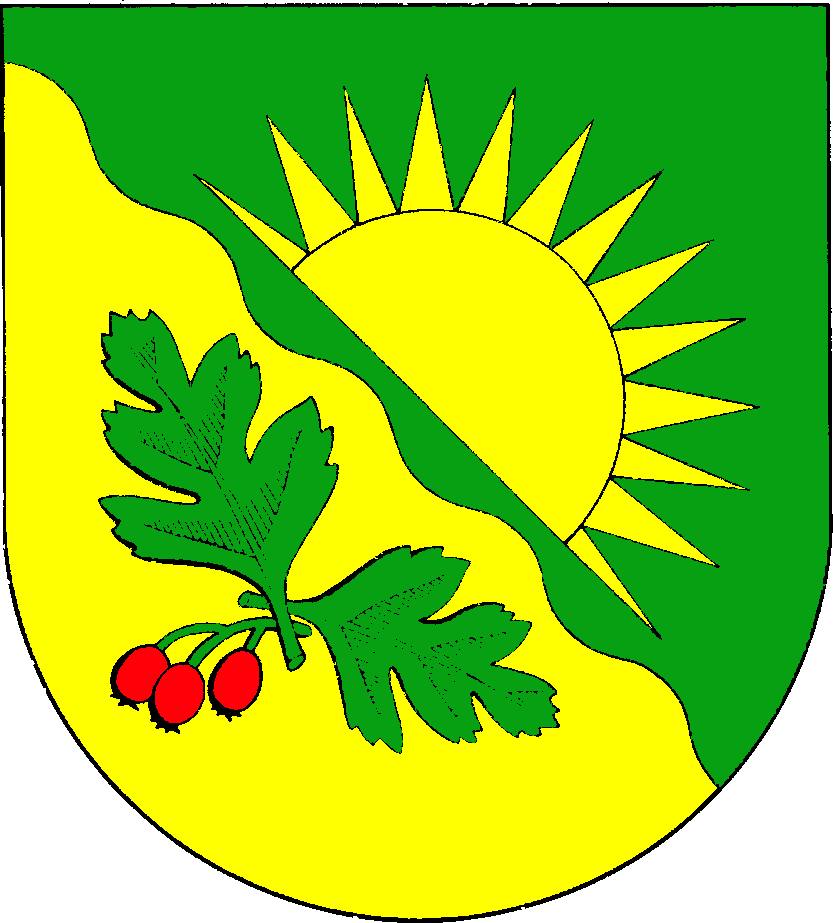 Coat of arms of the municipality Osterstedt in Schleswig-Holstein, Germany.